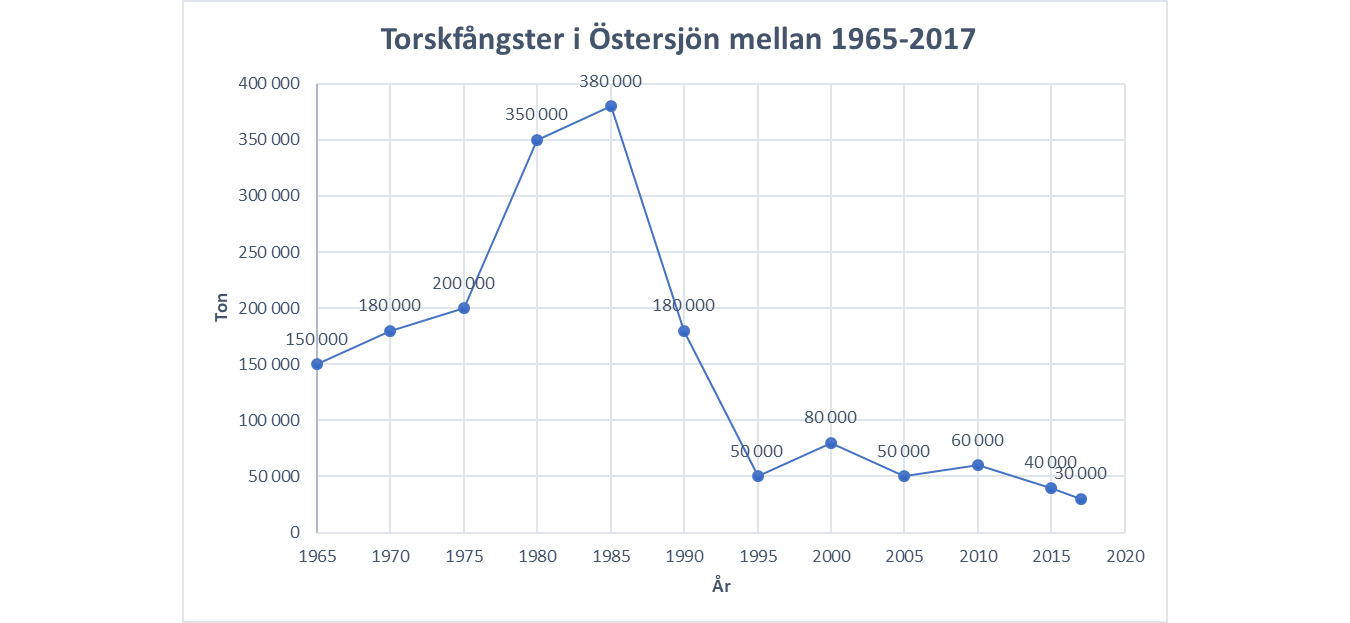 Language is in Swedish. International caption in English coming soon.